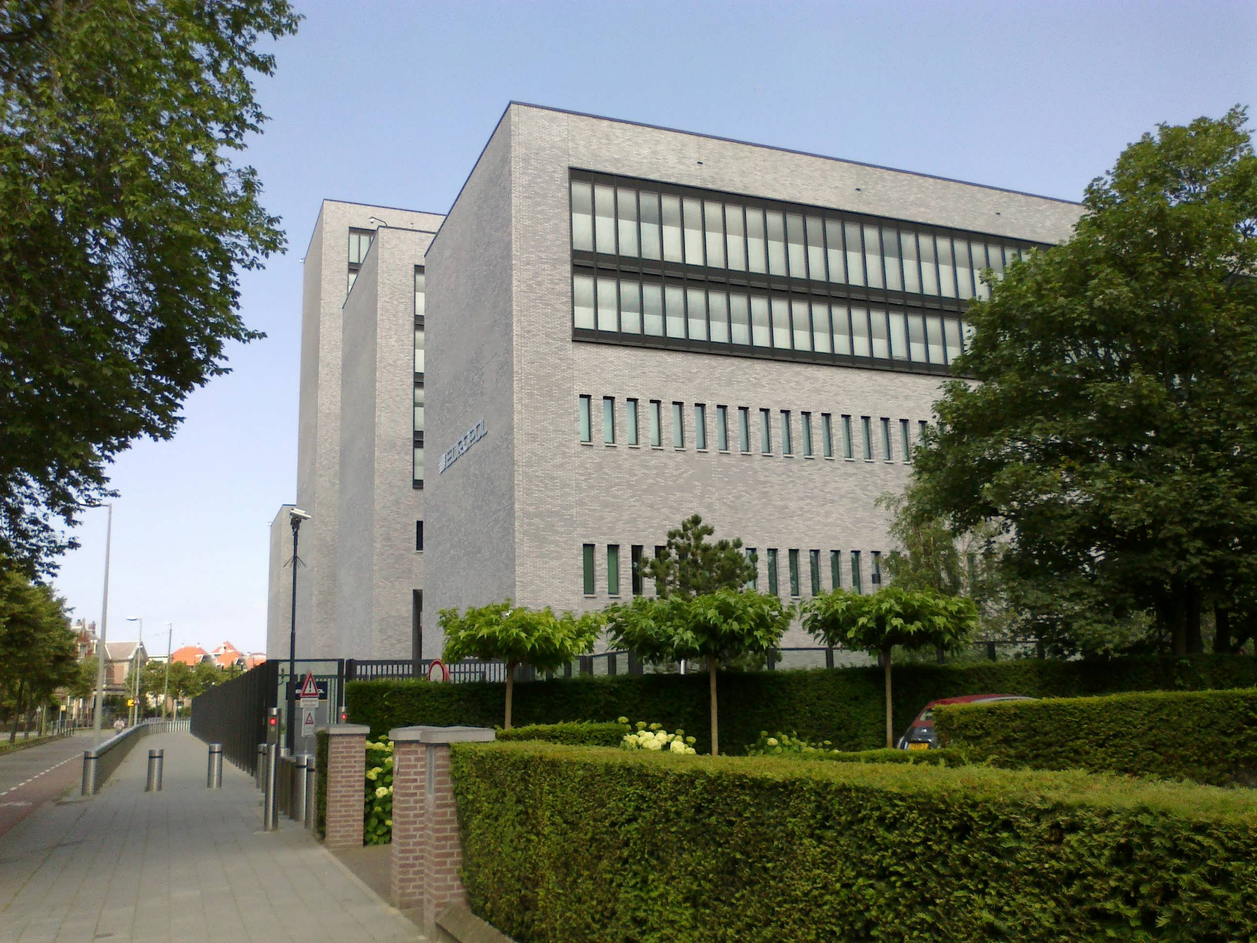 Europol Headquaters at the Eisenhowerlaan in The Hague, the Netherlands, which was opened by H.M. Queen Beatrix of the Netherlands in 2011.